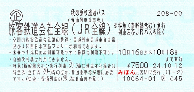 JR Autumn Pass